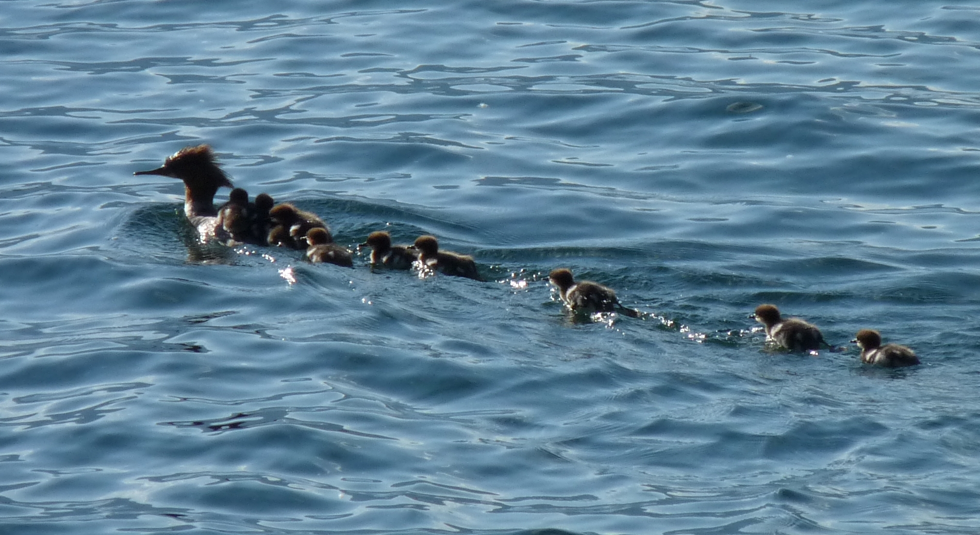 Mergus merganser with 10 children, Lago Maggiore, Switzerland